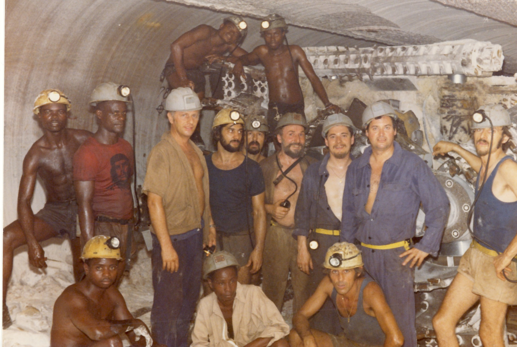 At the bottom in 1974